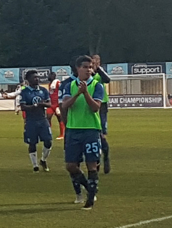 Players of the HFX Wanderers after a 2019 Canadian Championship match at Wanderers Grounds in Halifax, Nova Scotia, on 10 July 2019.